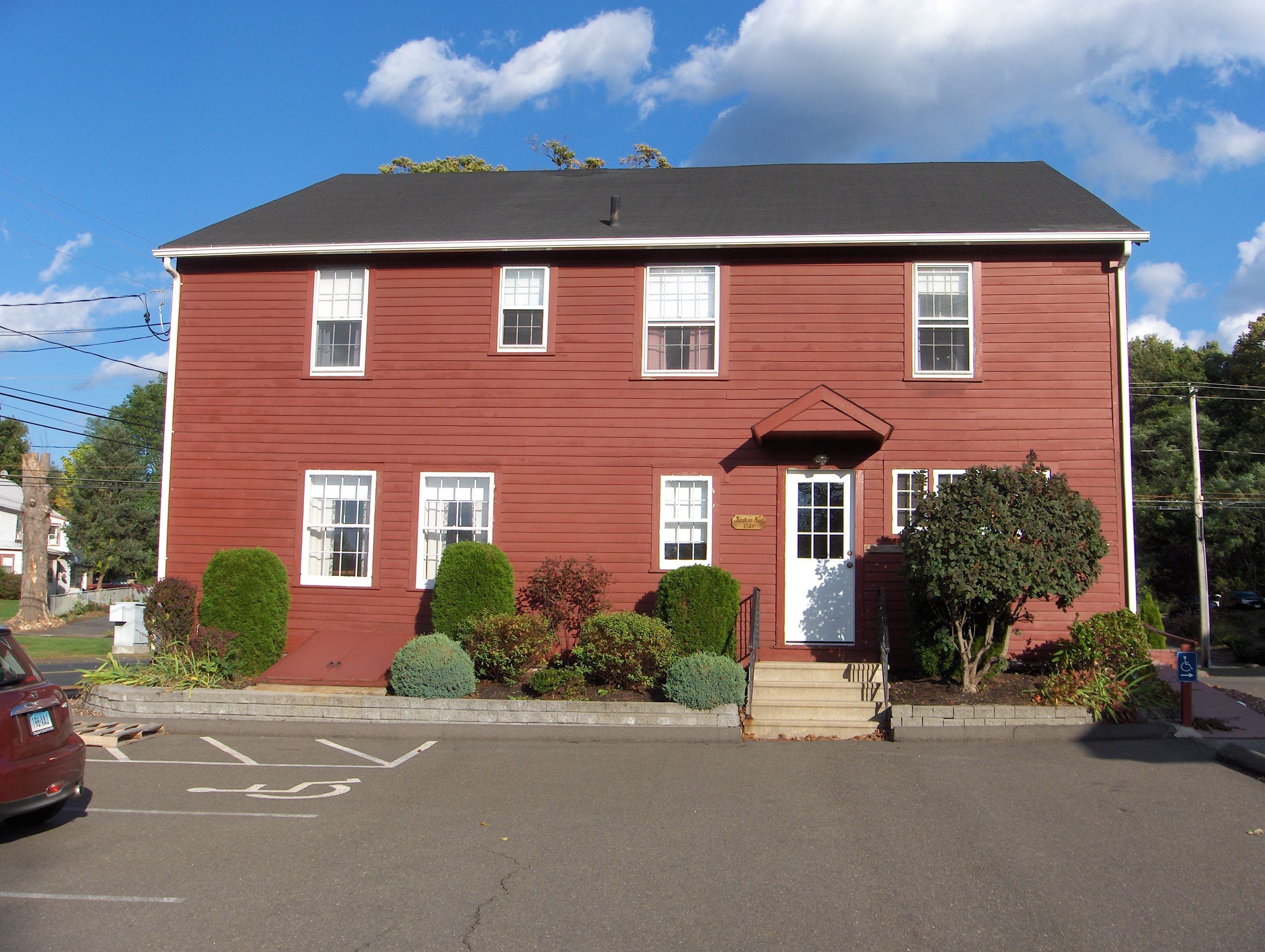 House and tavern of Jonathan Root, first selectman of Southington Ct USA. Located at 140-142 North Main street. Built circa 1720